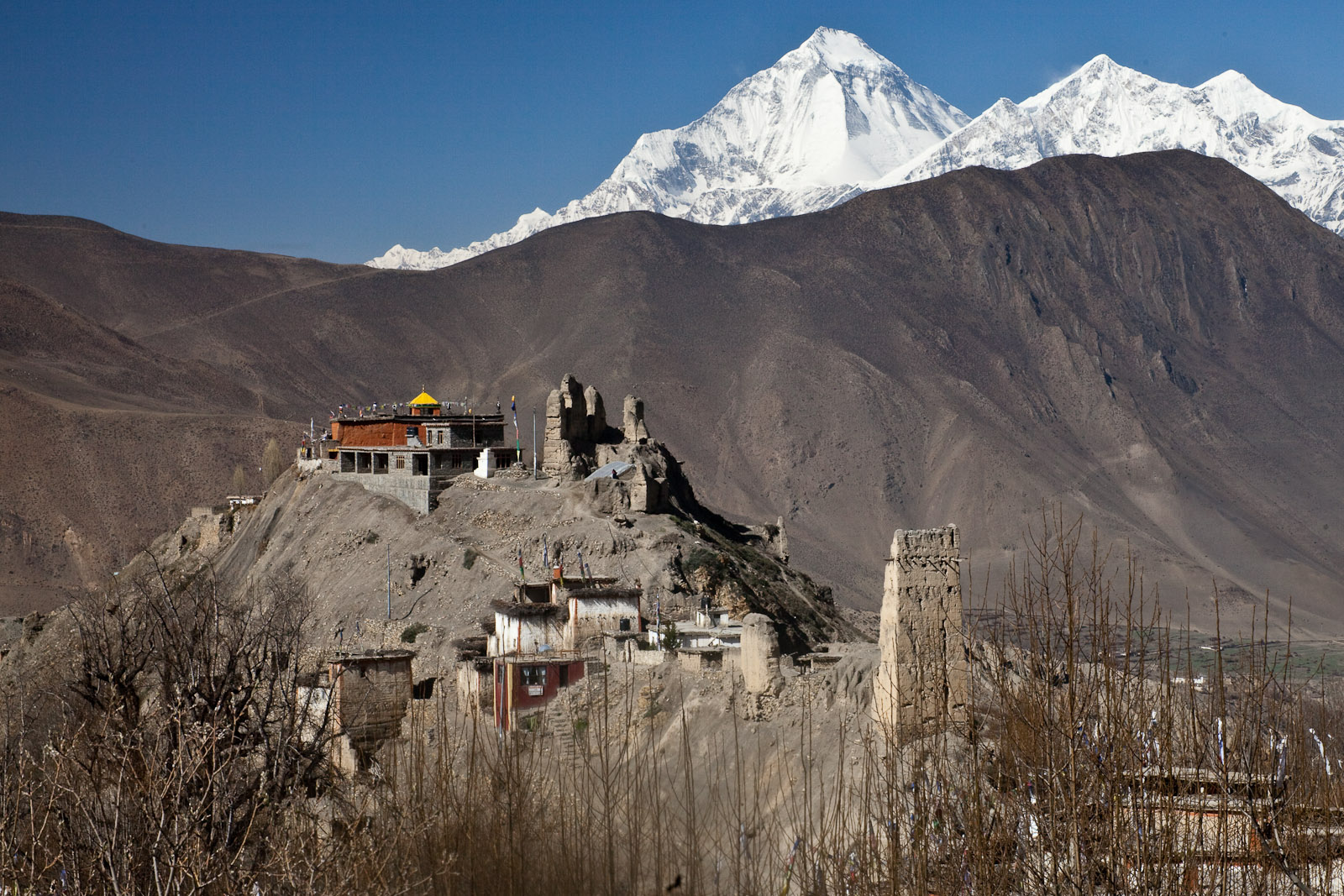 Ruined fort and gompa at Jhong, Nilgiri in back